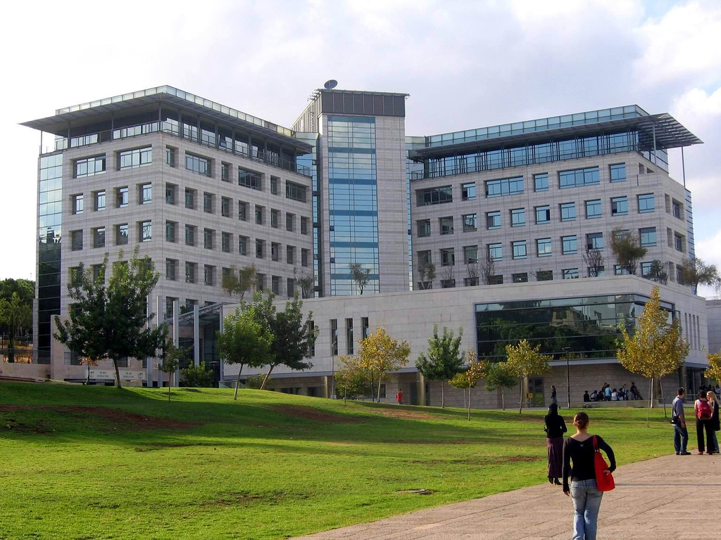 The Computer Science Faculty building, named after Taub, in the Technion Institute for Science, Haifa, Israel. Taken on Oct. 30th, by Beny Shlevich. Original on Flickr.